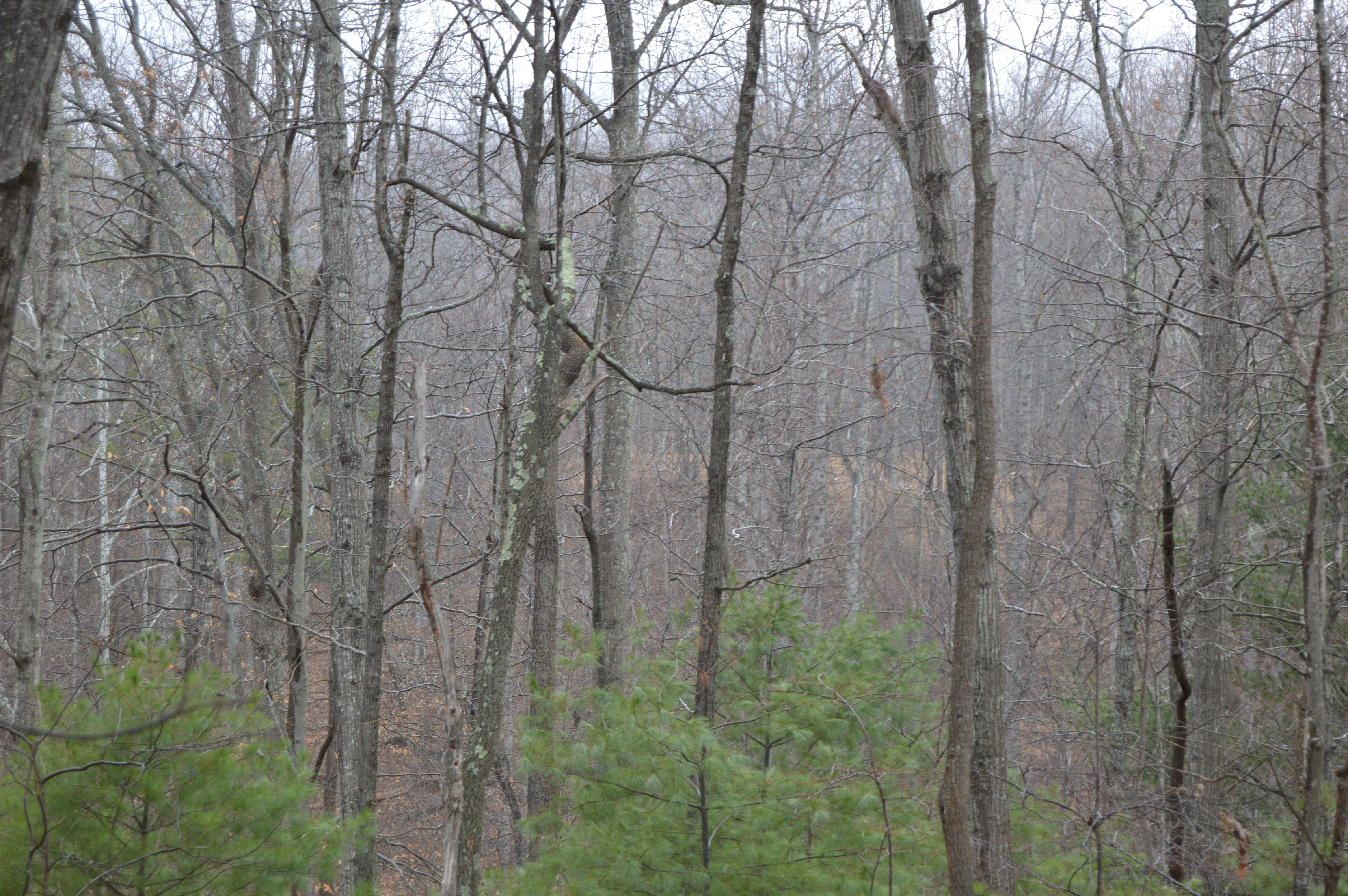 Woodland on the western side of Buffalo Ridge Road in westermost Franklin County, Virginia, United States. The clearing visible in the distance is the Otter Creek Archaeological Site, a significant archaeological site that is listed on the National Register of Historic Places.